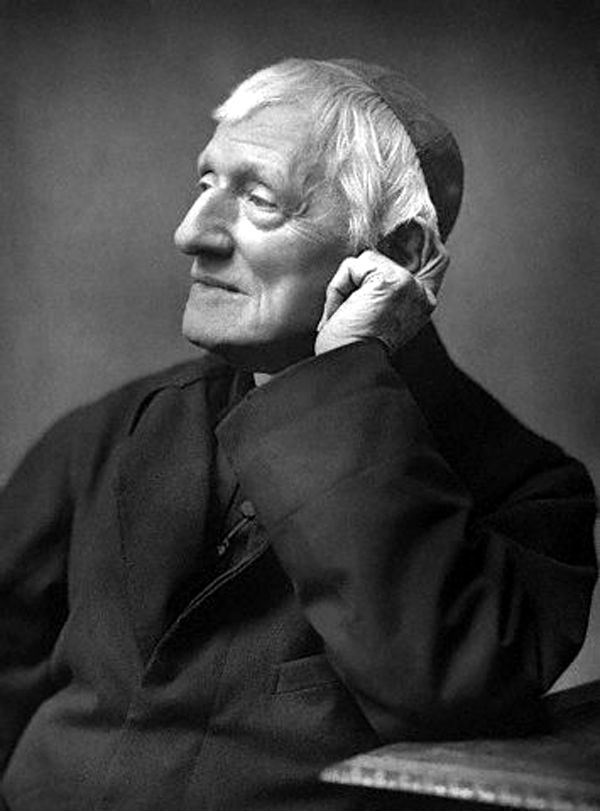 Picture of John Henry Newman